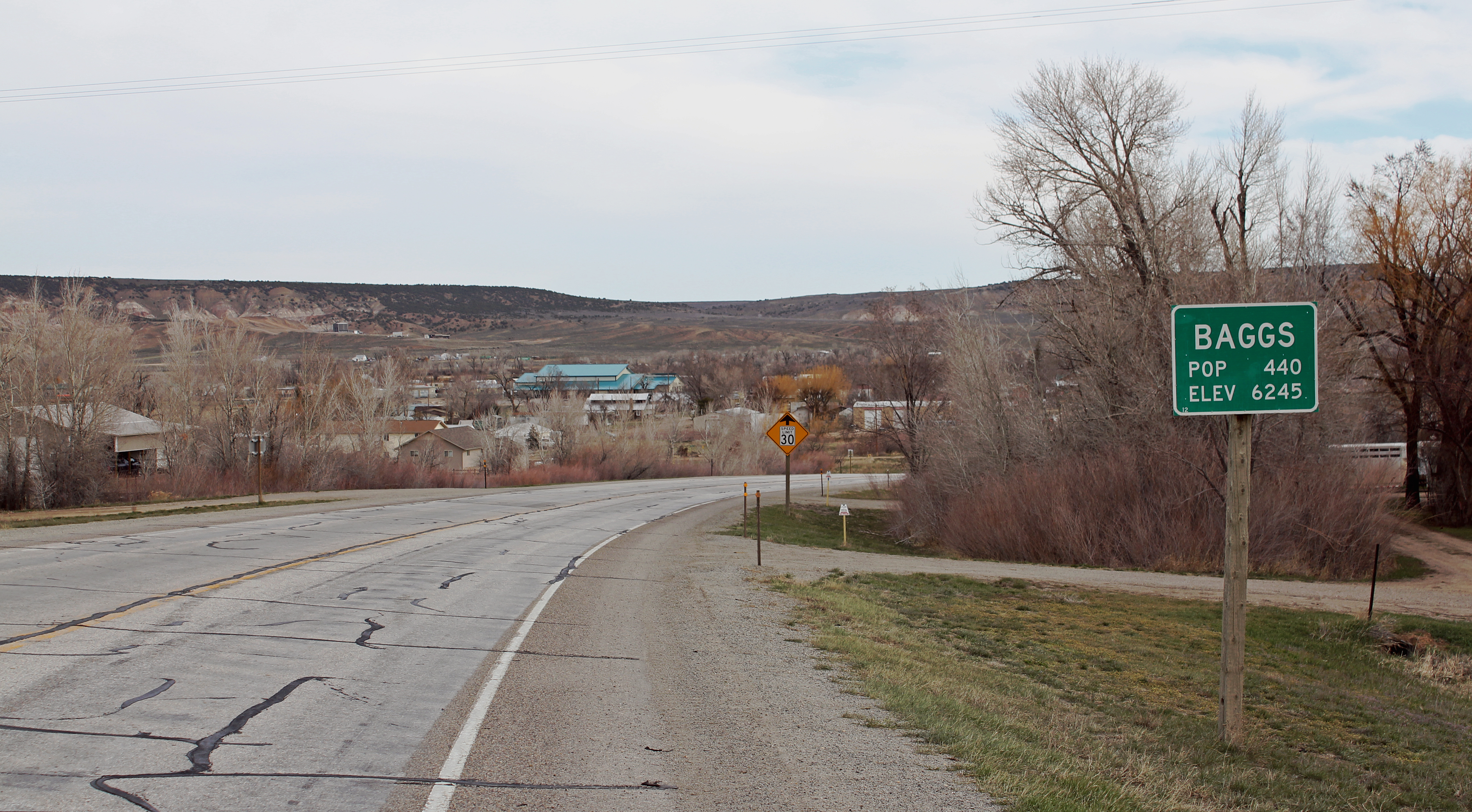 The town of Baggs, Wyoming. The view is looking to the north on Wyoming State Highway 789, entering the town from the south. Baggs is in Carbon County.